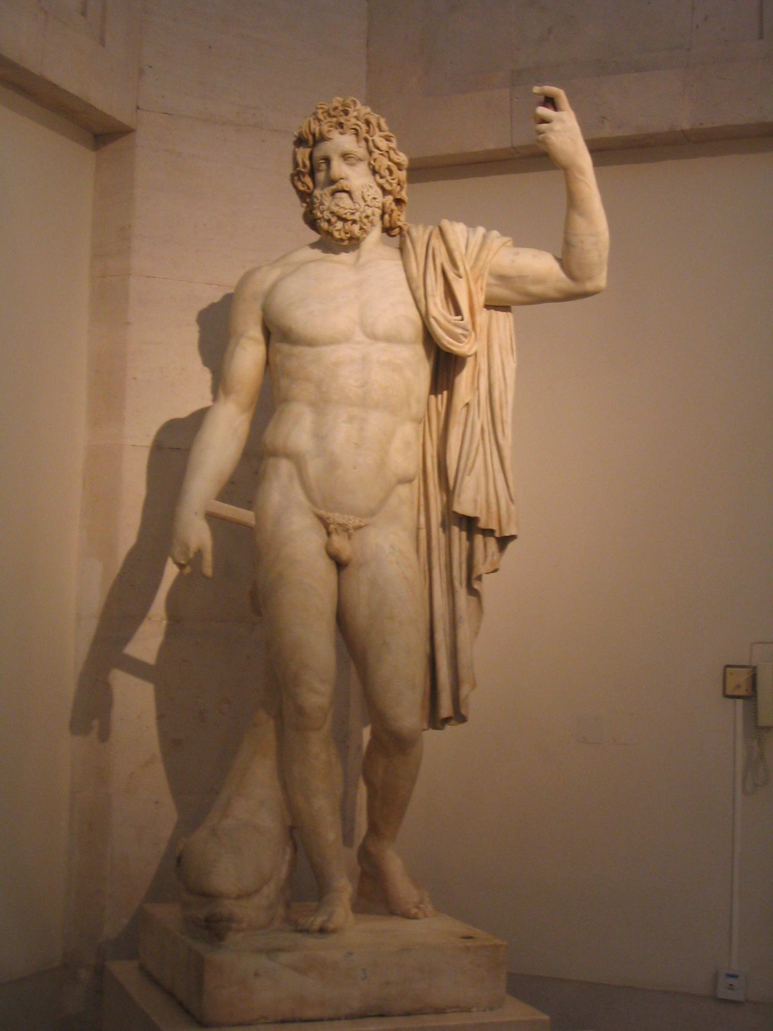 Colossal-type statue of Neptune. Probably sculpted in a workshop in Aphrodisias (Asia Minor), it was at Palaemon's sanctuary in Isthmia (near Corinth), where it was described by Pausanias (II, 2, 1) in the 2nd century CE. It is an important sample of Roman Empire's classicism.